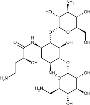 Molecular structure of Amikacin with proper stereochemistry and formatting